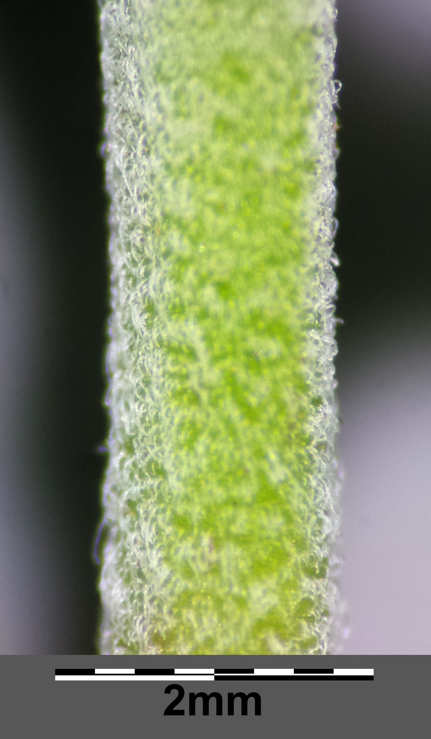 Stem with retrorsely aculeolate hairs Taxonym: Veronica maritima ss Fischer et al. EfÖLS 2008 ISBN 978-3-85474-187-9 Location: pond near Michelstetten, district Mistelbach, Lower Austria - ca. 250 m a.s.l. Habitat: shore of a pond